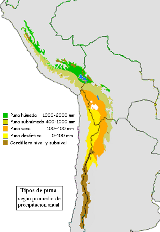 Puna region in the Andes